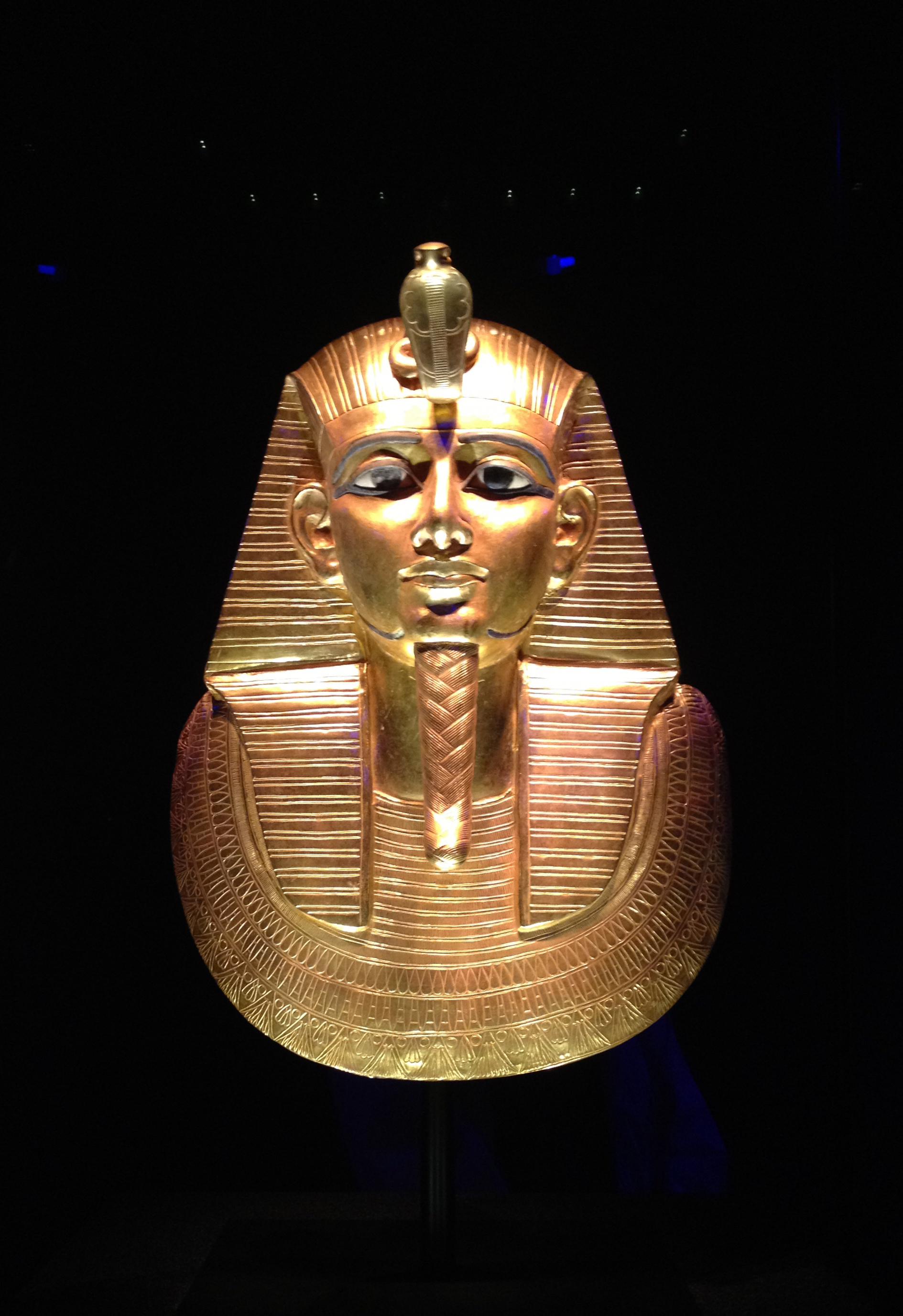 The funerary mask of king Psusennes I on temporary display at the king Tut exhibit in the Pacific Science Center in Seattle, Washington State, USA. He ruled Lower Egypt for more than 40 years during the 11th century BCE and his tomb was discovered intact at Tanis, Egypt, in 1940.